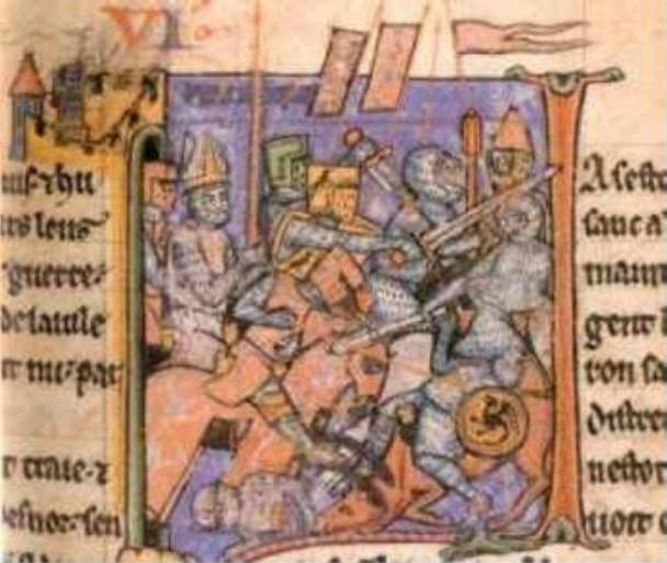 I got this on Wiki, here, en: de Monteil carries the Holy Lance.jpg I have simply made it larger, and the name tag is now easier to write.